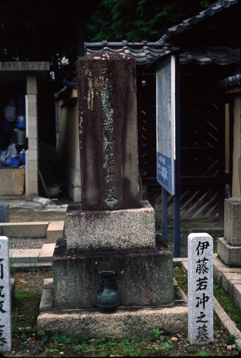 Grave of Ito Jakuchu (伊藤若冲) at Shokokuji, a Buddhist temple in Kyoto, Japan.